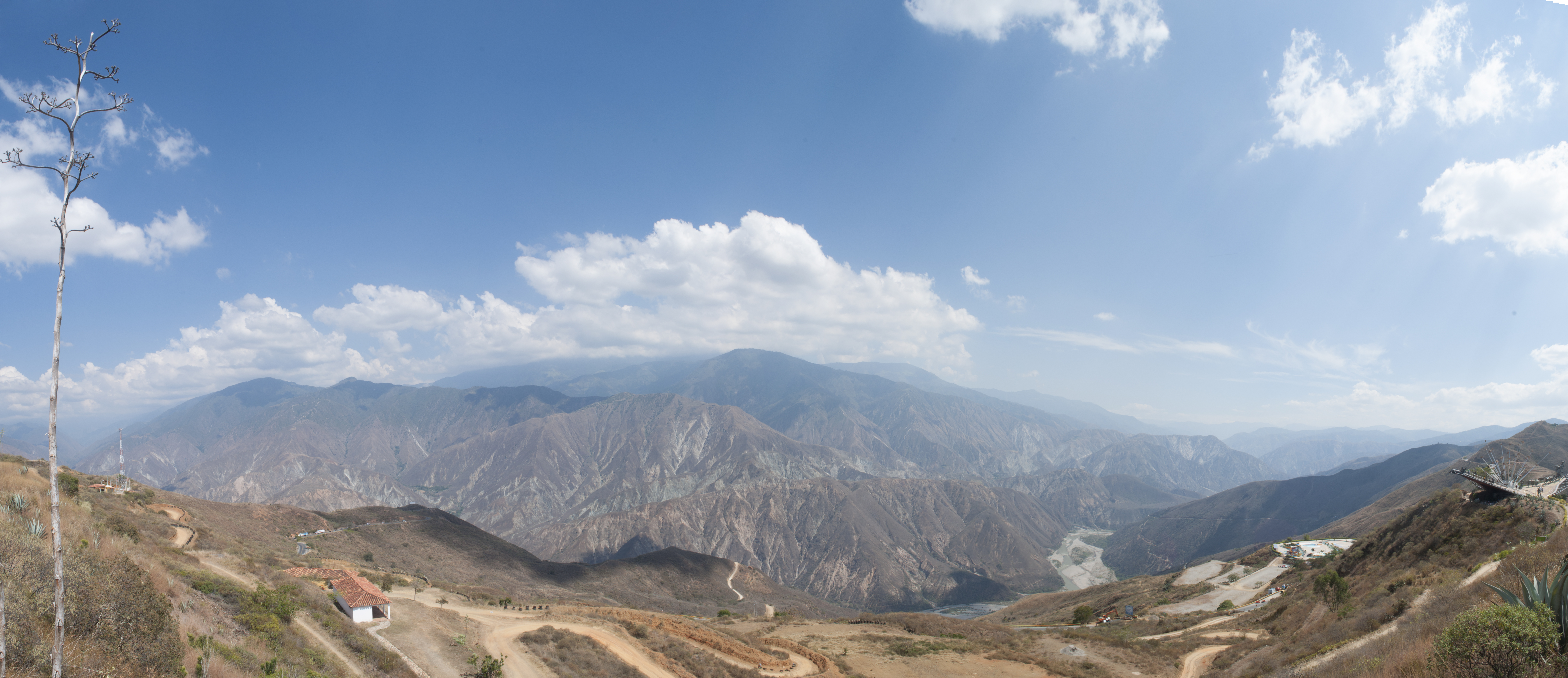 Chicamocha Canyon, Santander, Colombiaa